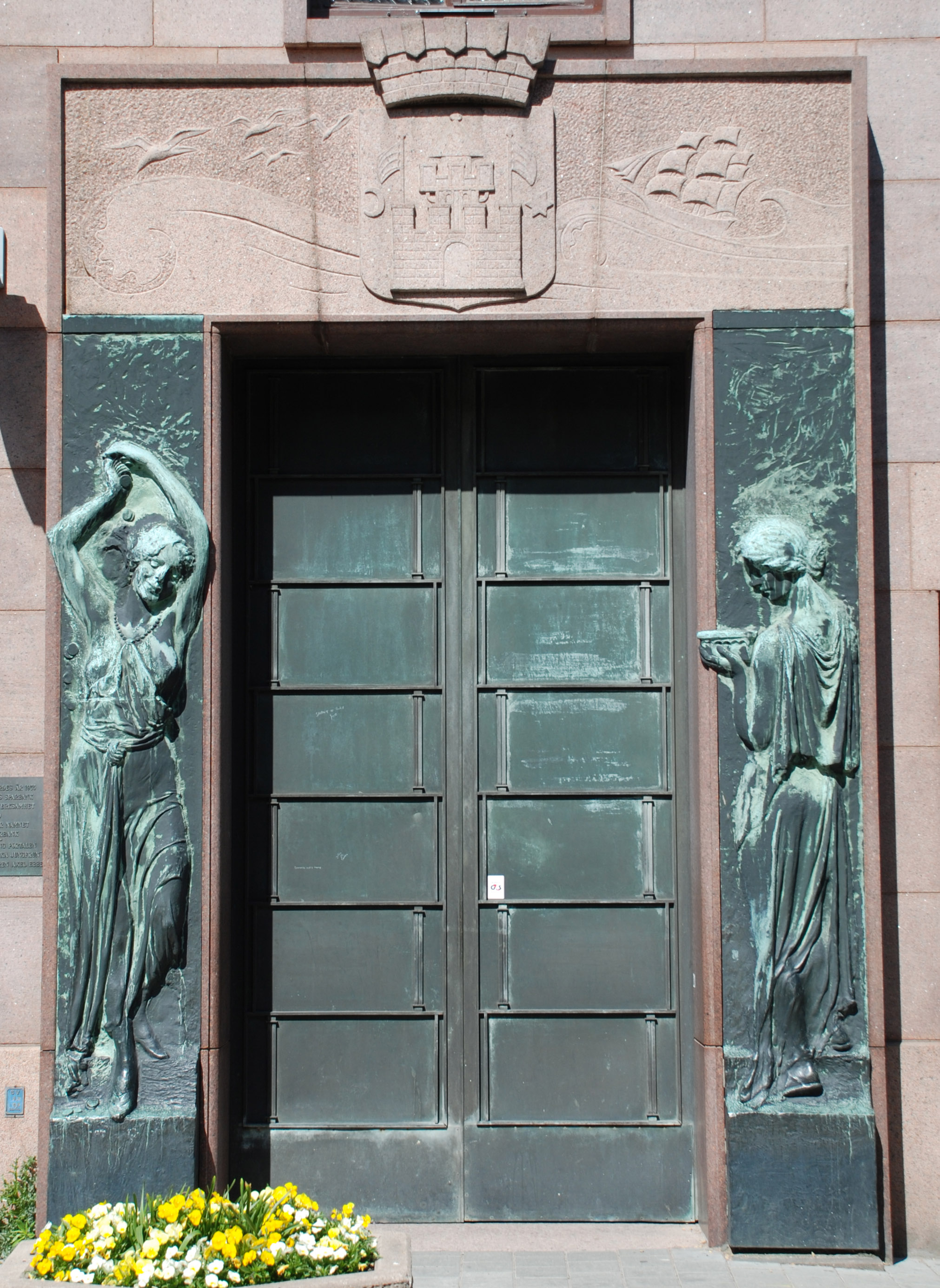 Swedish artist Axel Ebbe's (1868-1941) "Den visa och den fåvitska jungfrun" (1935 - bronze) at former Trelleborgs stads sparbank, Trelleborg, Sweden.